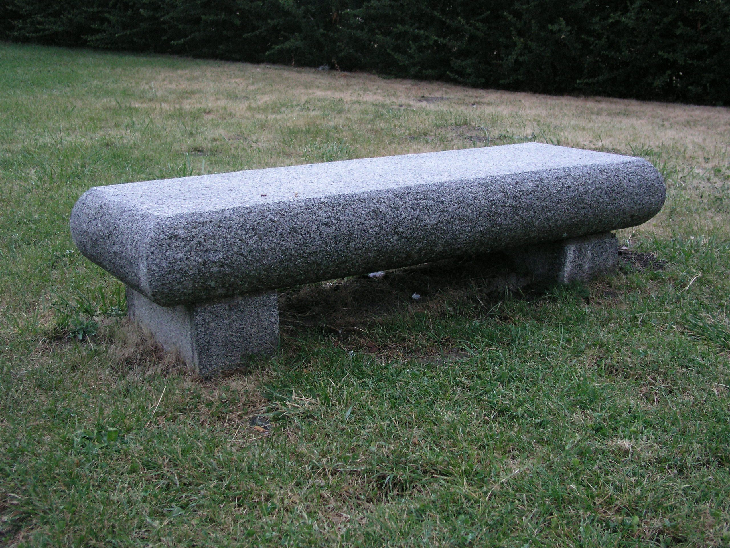 Embalse del Pontón Alto, en camino Madrid Navacerrada, Carretera CL-601. Park bench made of natural stone. The photo was taken the 13th October 2005 by Håkan Svensson (Xauxa).